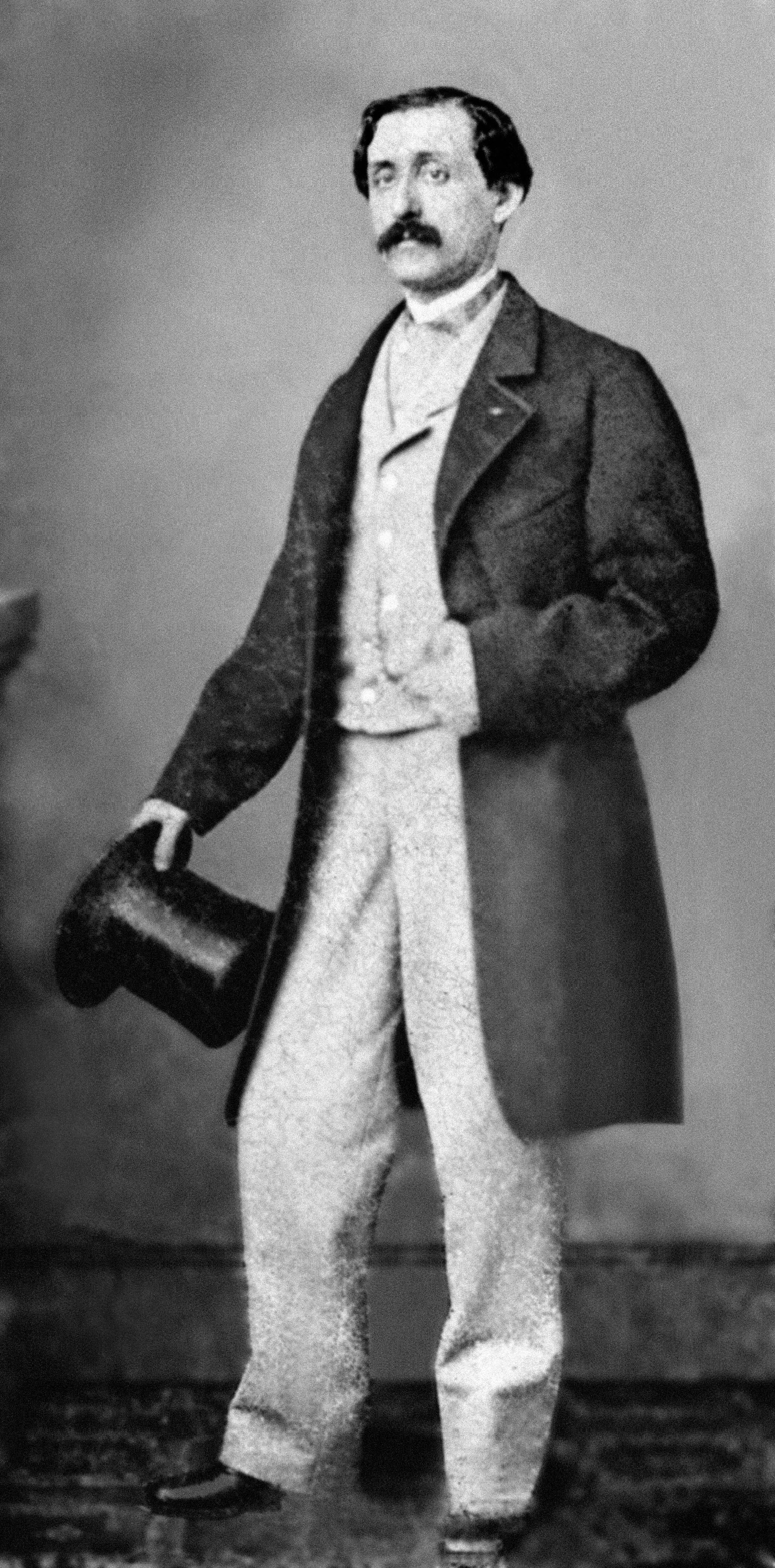 Louis Moreau Gottschalk. Library of Congress description: "Louis M. Gottschalk".